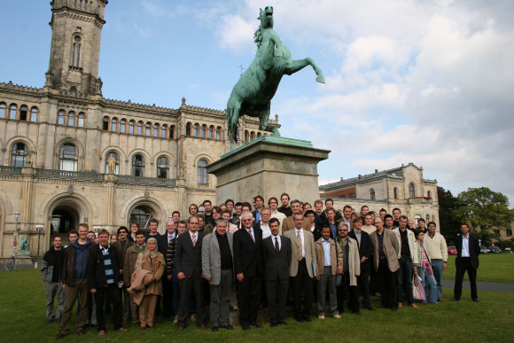 Conference photo of the NanoDay2008.